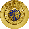 FIAP Gold Medal (Federation Internationale de l'Art Photographique)